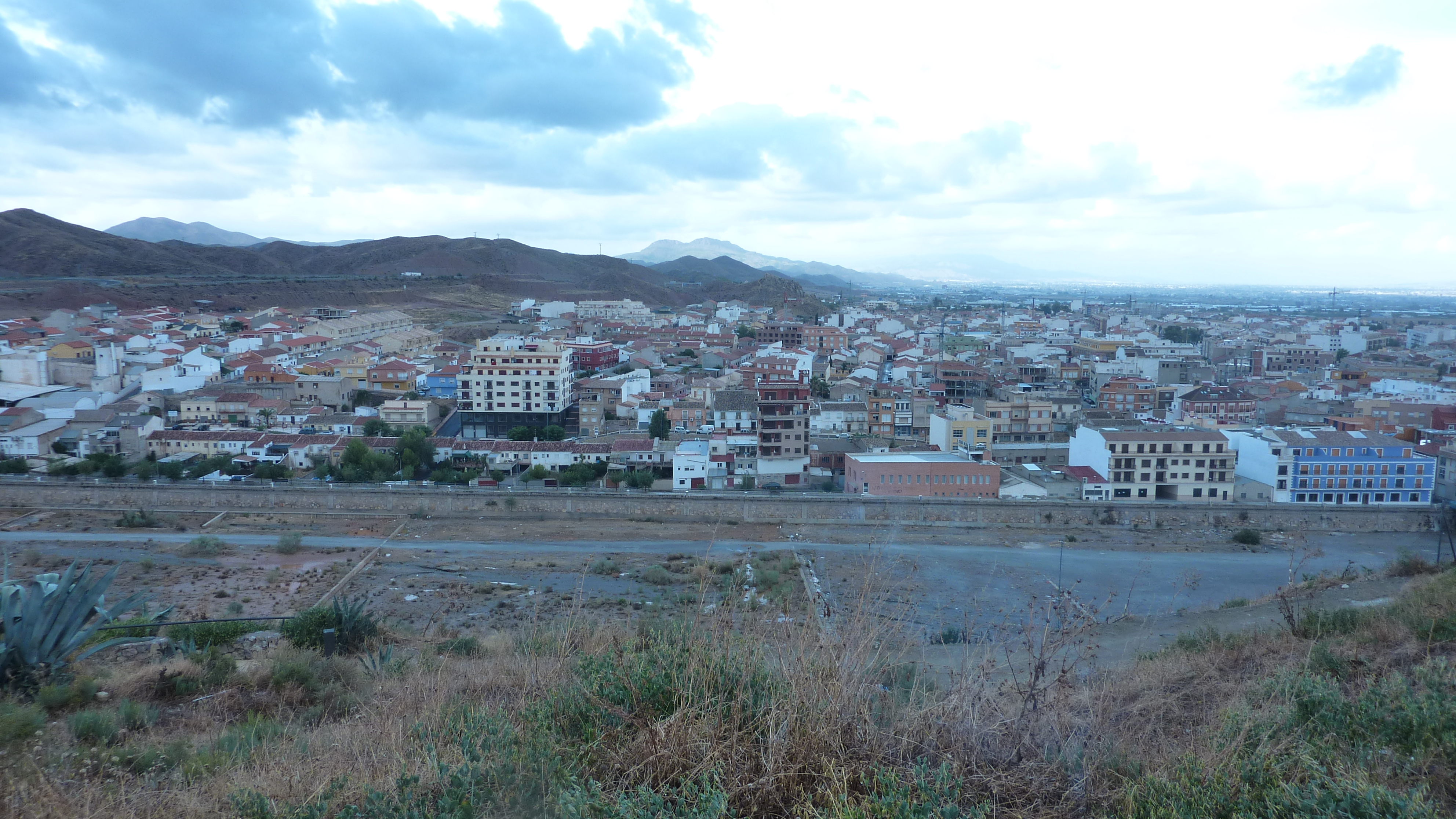 Puerto Lumbreras in 08/2010